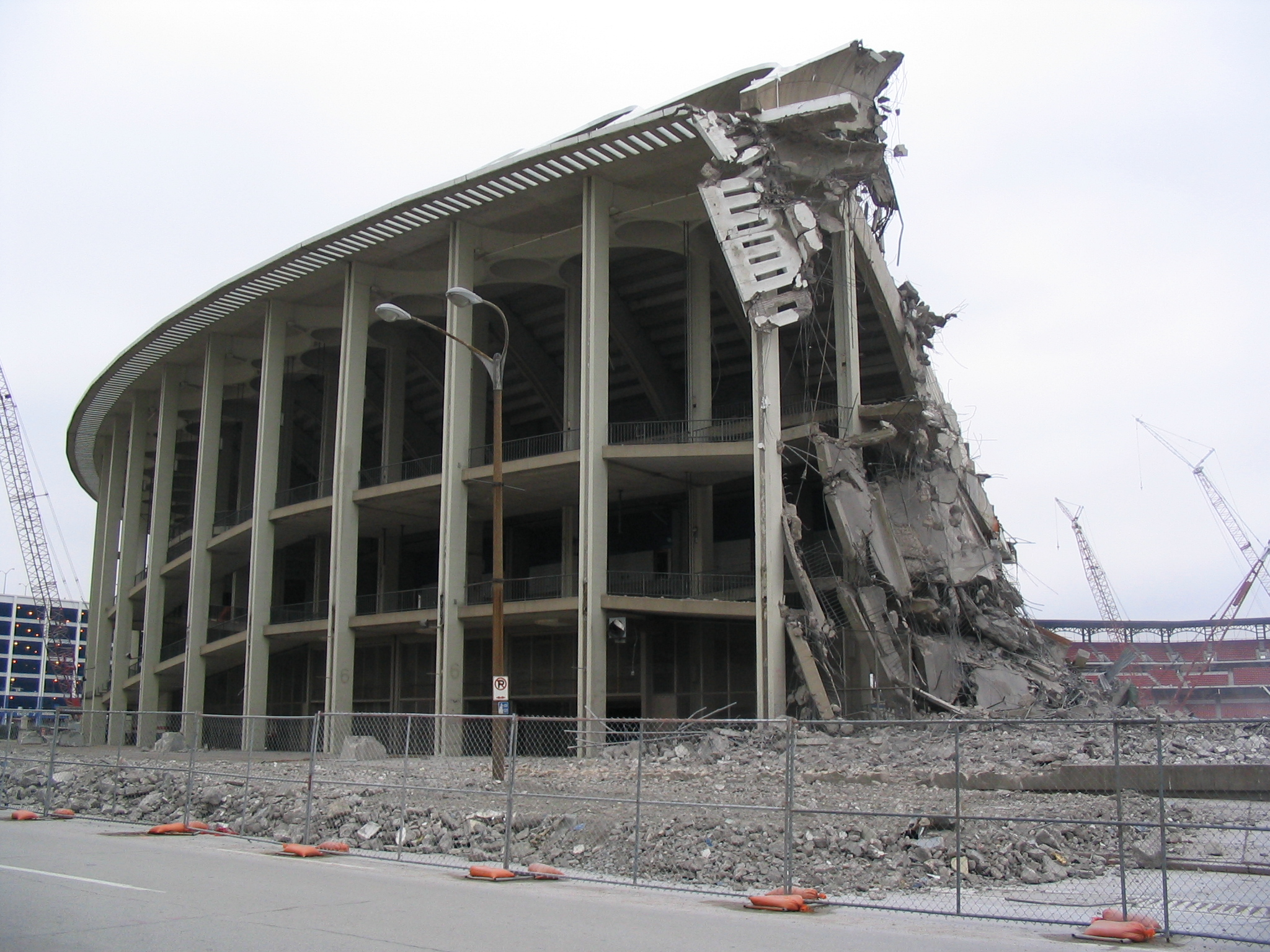 Old Busch Stadium destroyed